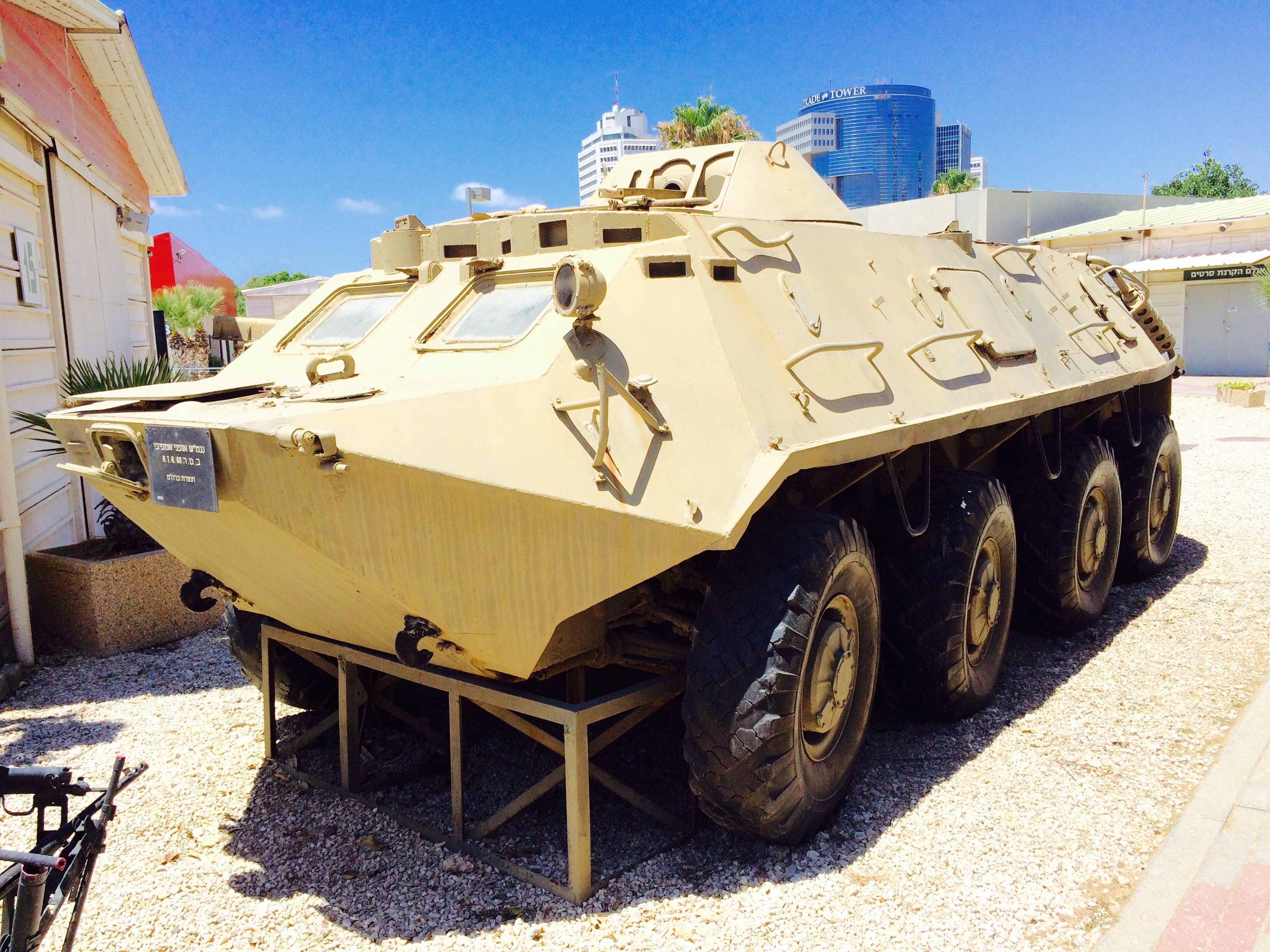 Description: Captured BTR-60PB at the Israeli Defense Forces/Batey haOsef Museum in Tel-Aviv, Israel.